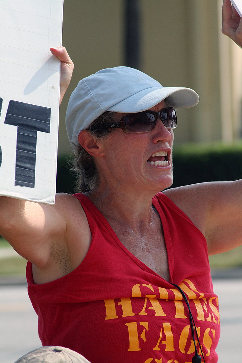 Westboro Baptist Church member Shirley Phelps-Roper